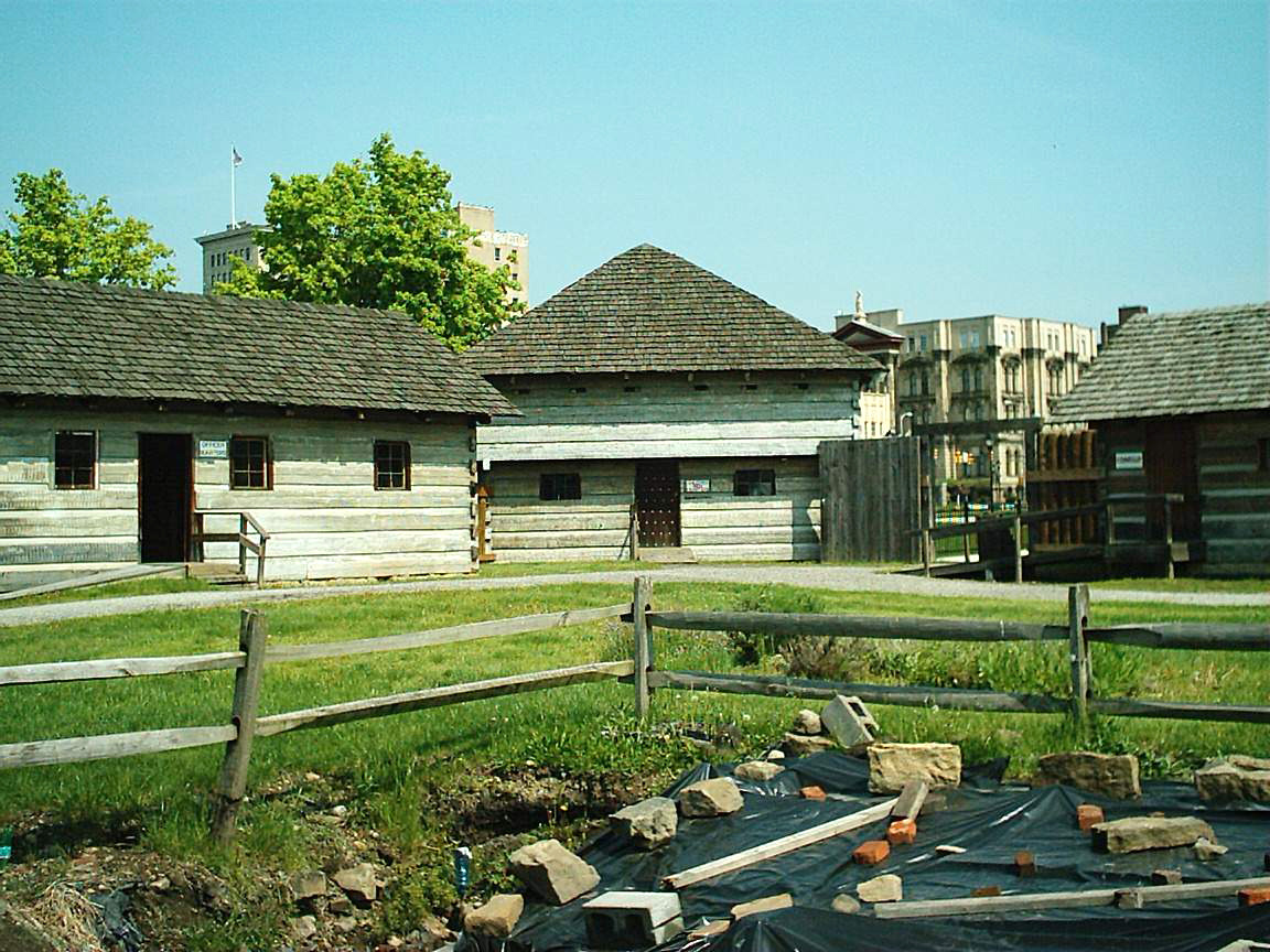 An archaeological dig continues in the forefront of this view of the northwest corner of Old Fort Steuben, in Steubenville, Ohio, United States.